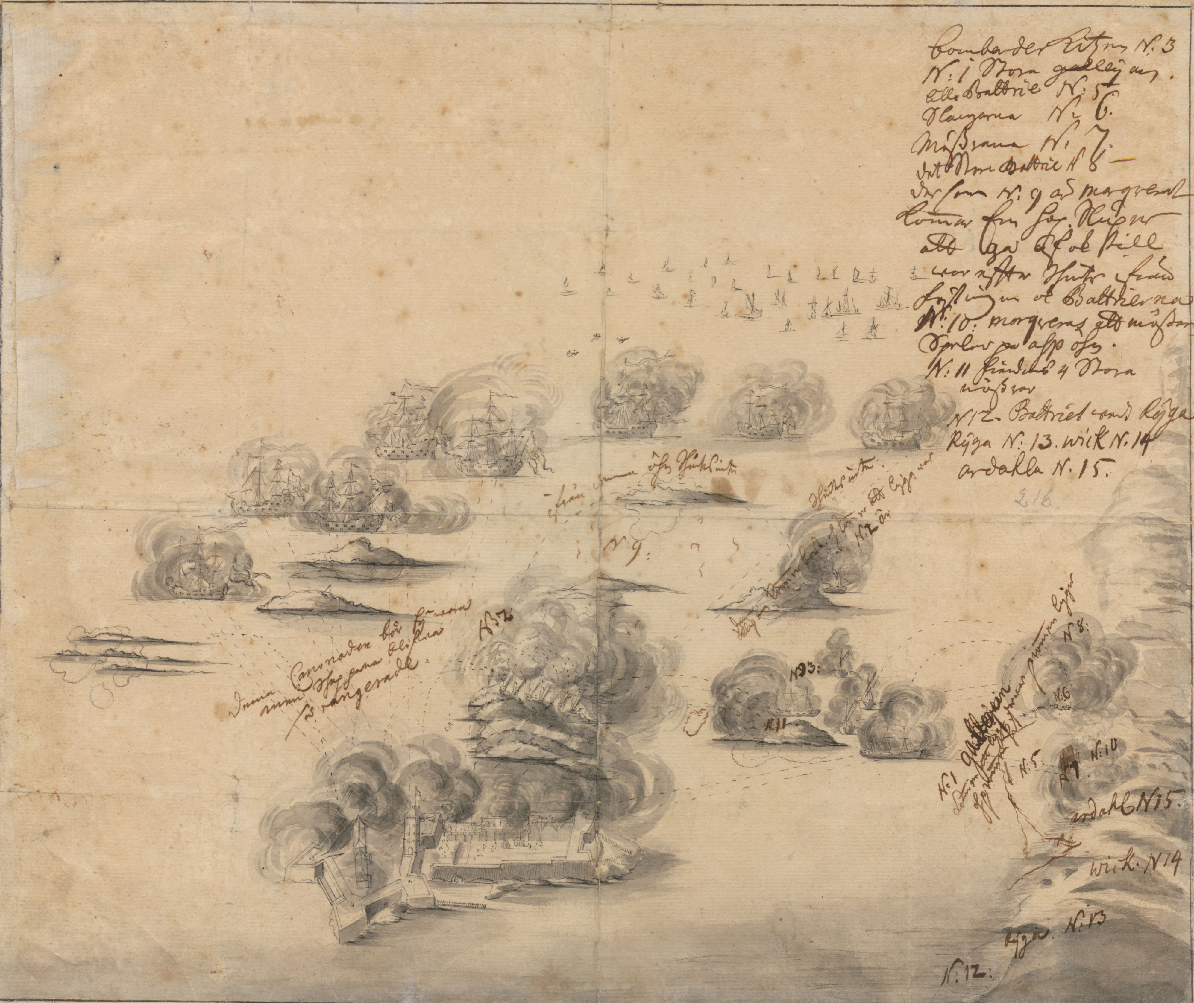 Drawing of the attack by danish-norwegian admiral Tordenskjold, at the swedish fortress Nya Älvsborg in Gothenburg harbour 21-24th july 1719. Source: Swedish War Archives